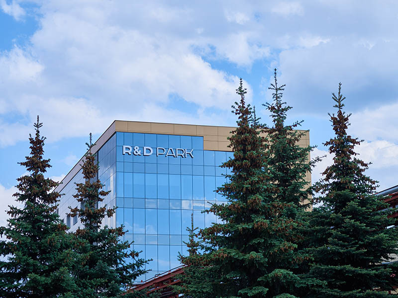 R&D Park Krastsvetmet